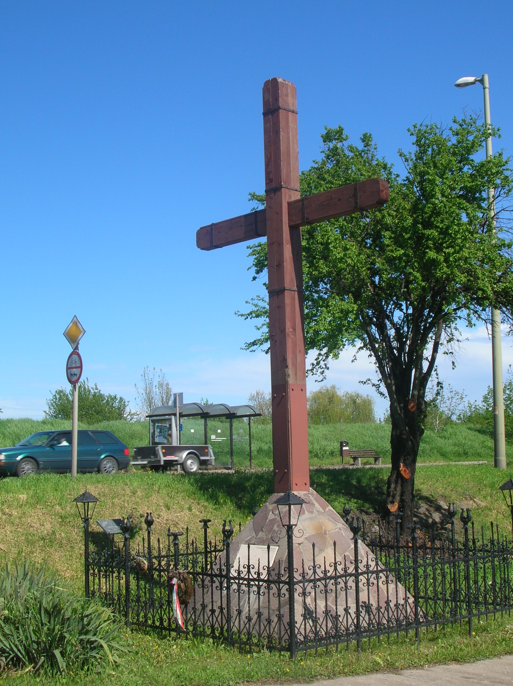 Memorial of the Battle of Szőreg